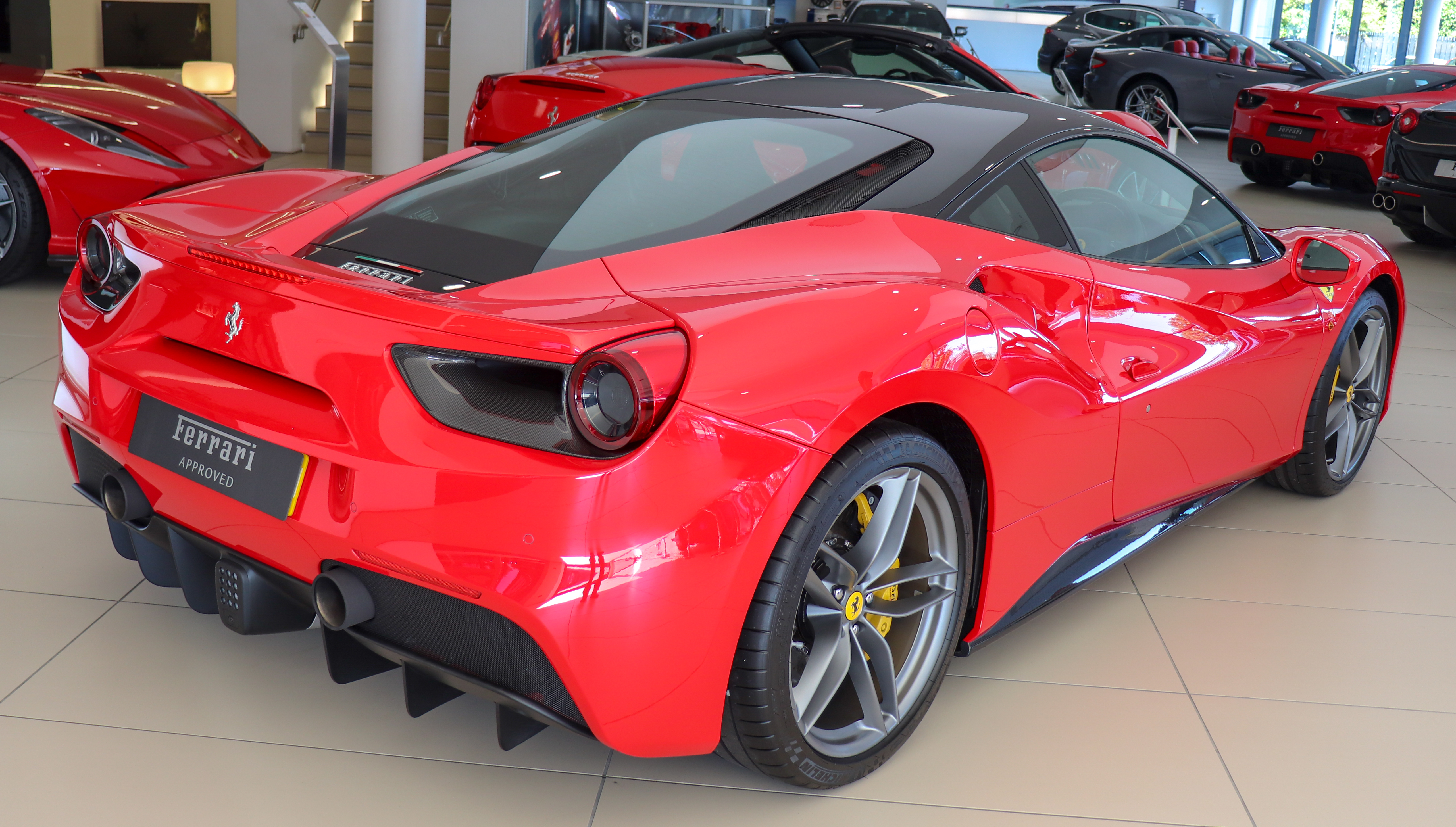 2017 Ferrari 488 GTB Automatic 3.9 Rear Taken in Solihull